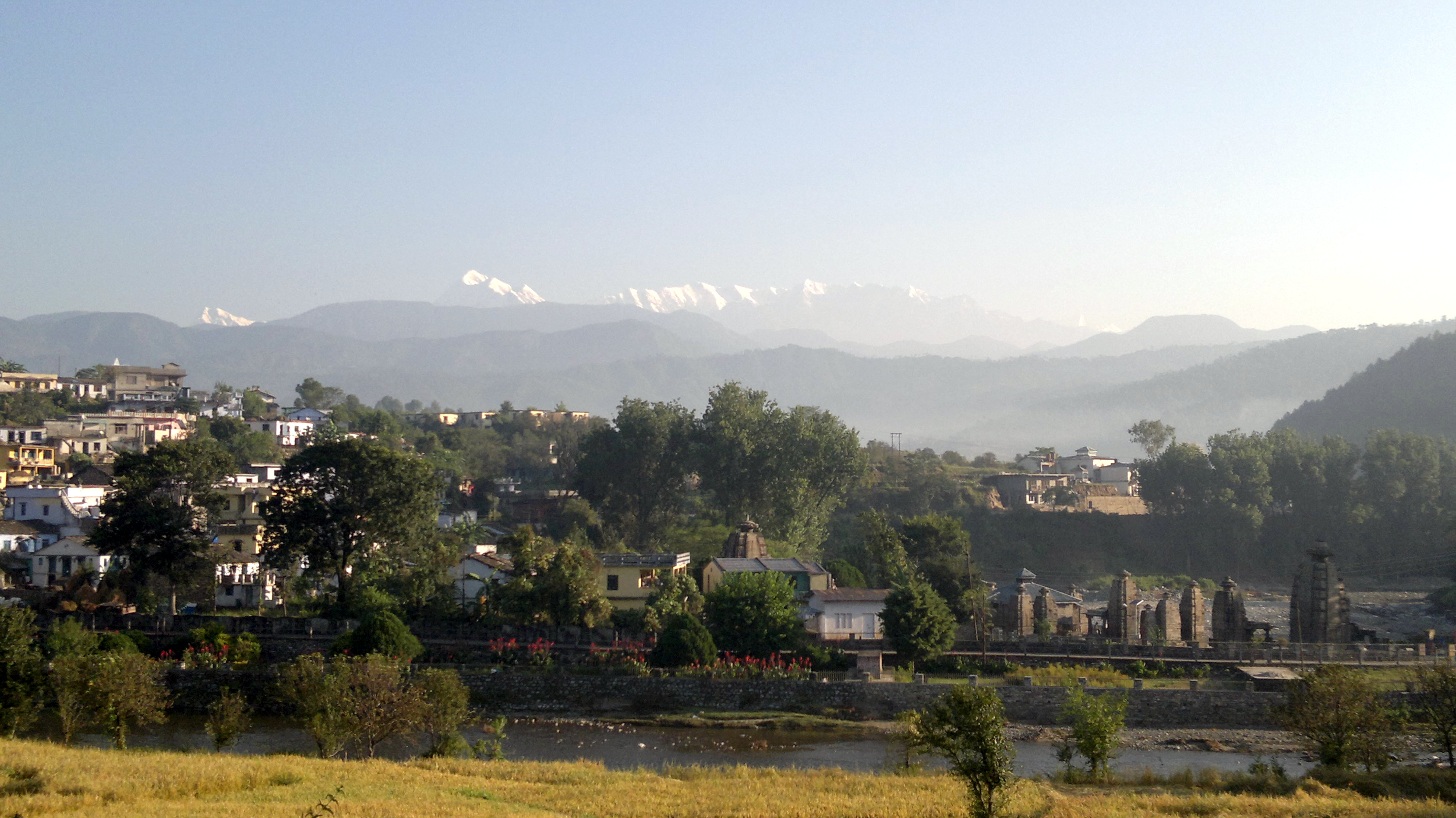 Baijnath Dham in the middle Himalayas. One can see the monument alongwith the mighty snow clad peaks of himalayas and the kosi river flowing alongside